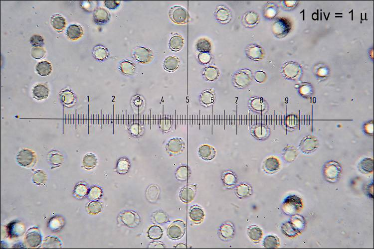 Spores of the basidomycete fungus Russula virescens (Schaeff.) Fr.